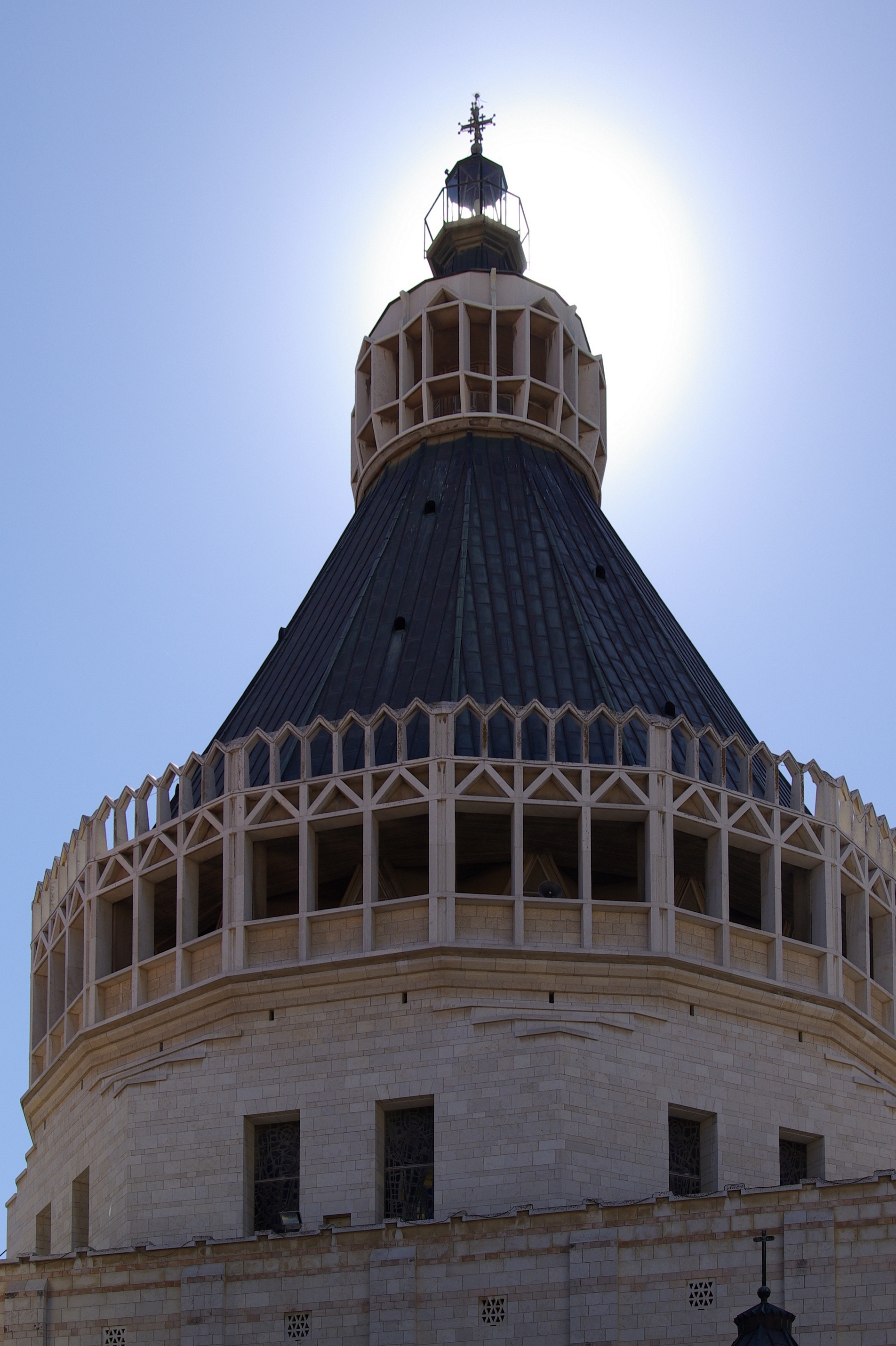 Church of the Annunciation, Nazareth, Israel